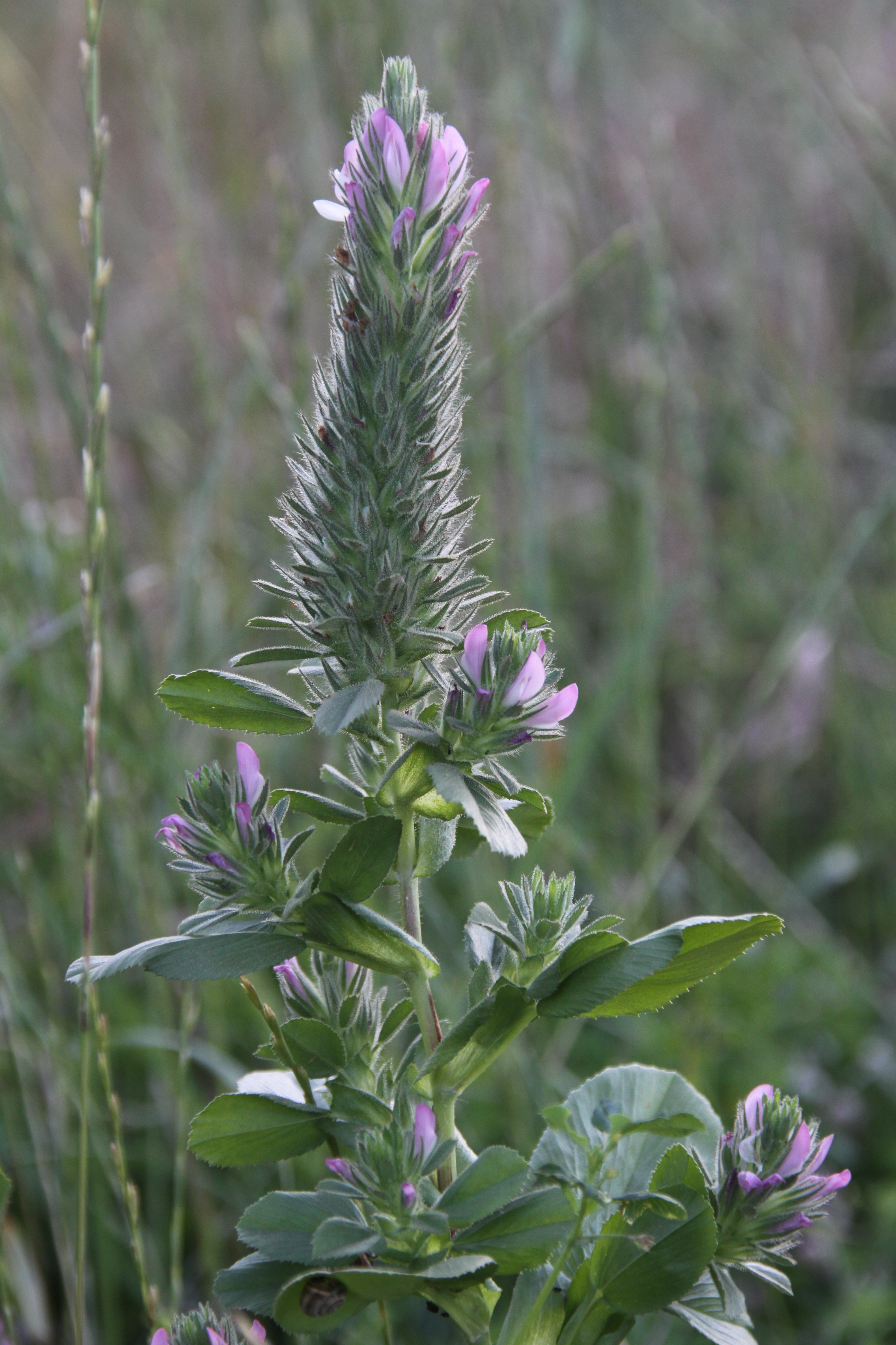 Foxtail Rest Harrow (Ononis alopecuroides), at the edge of Rehovot vernal pool, Israel